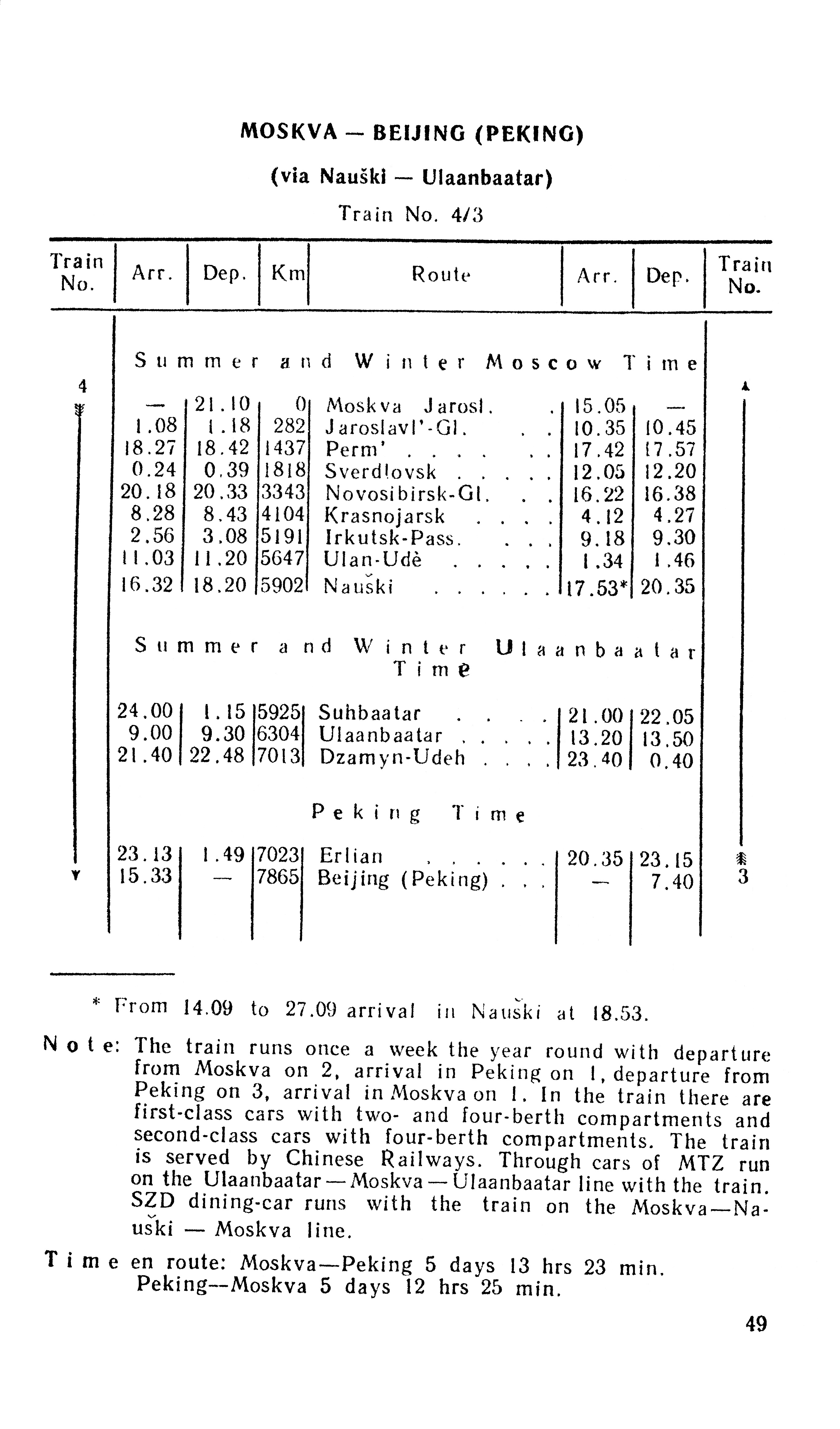 Timetable of Moscow-Beijing service of the Soviet Railways. From: Guide of International Passenger Routes, Valid from June 1, 1986 to May 30, 1987. Moscow 1986